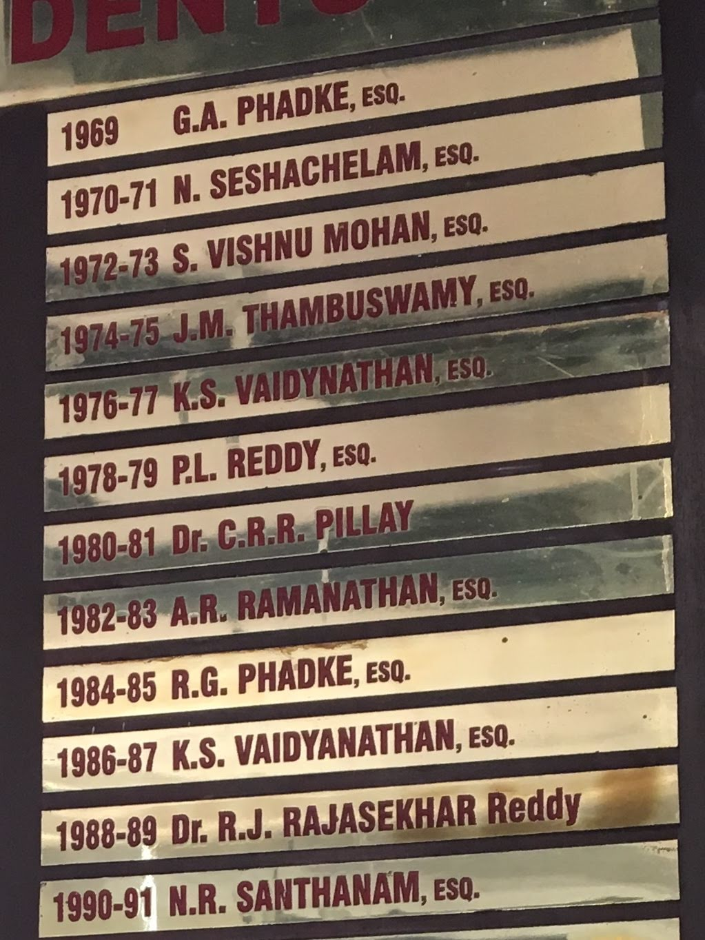 Plaque of Madras Gymkhana Club list of honorary secretaries on display at the club entrance